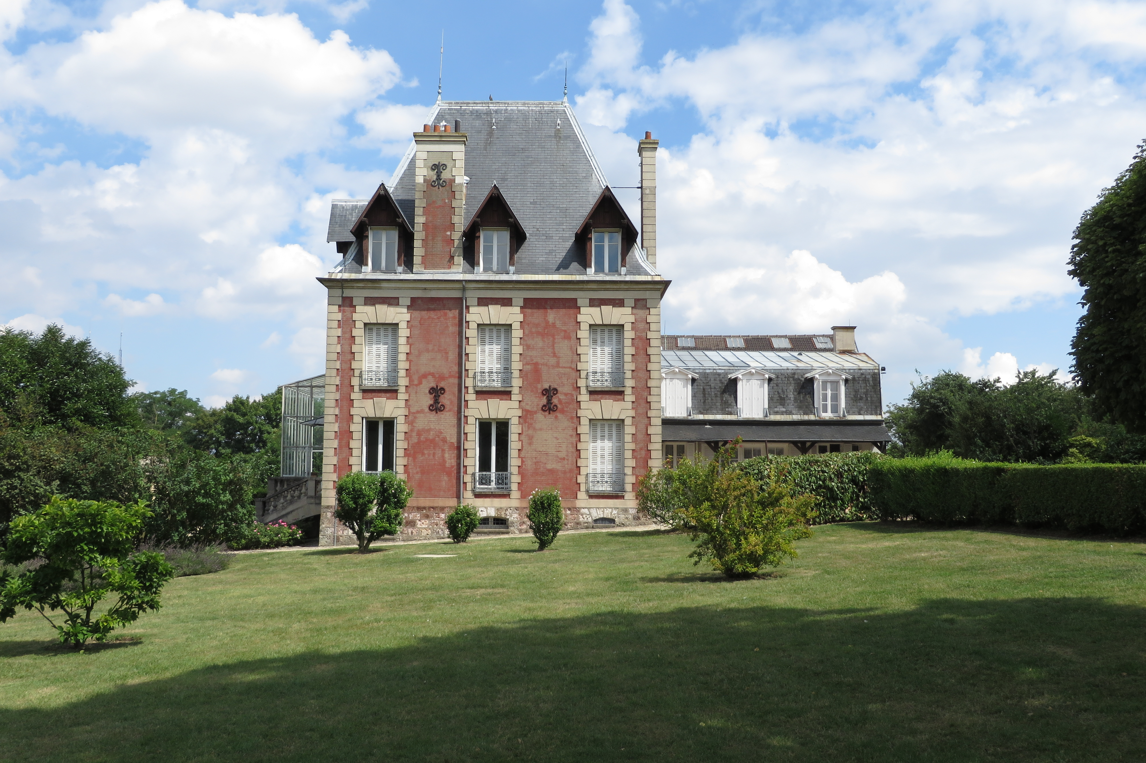 Musée Rodin de Meudon, Meudon